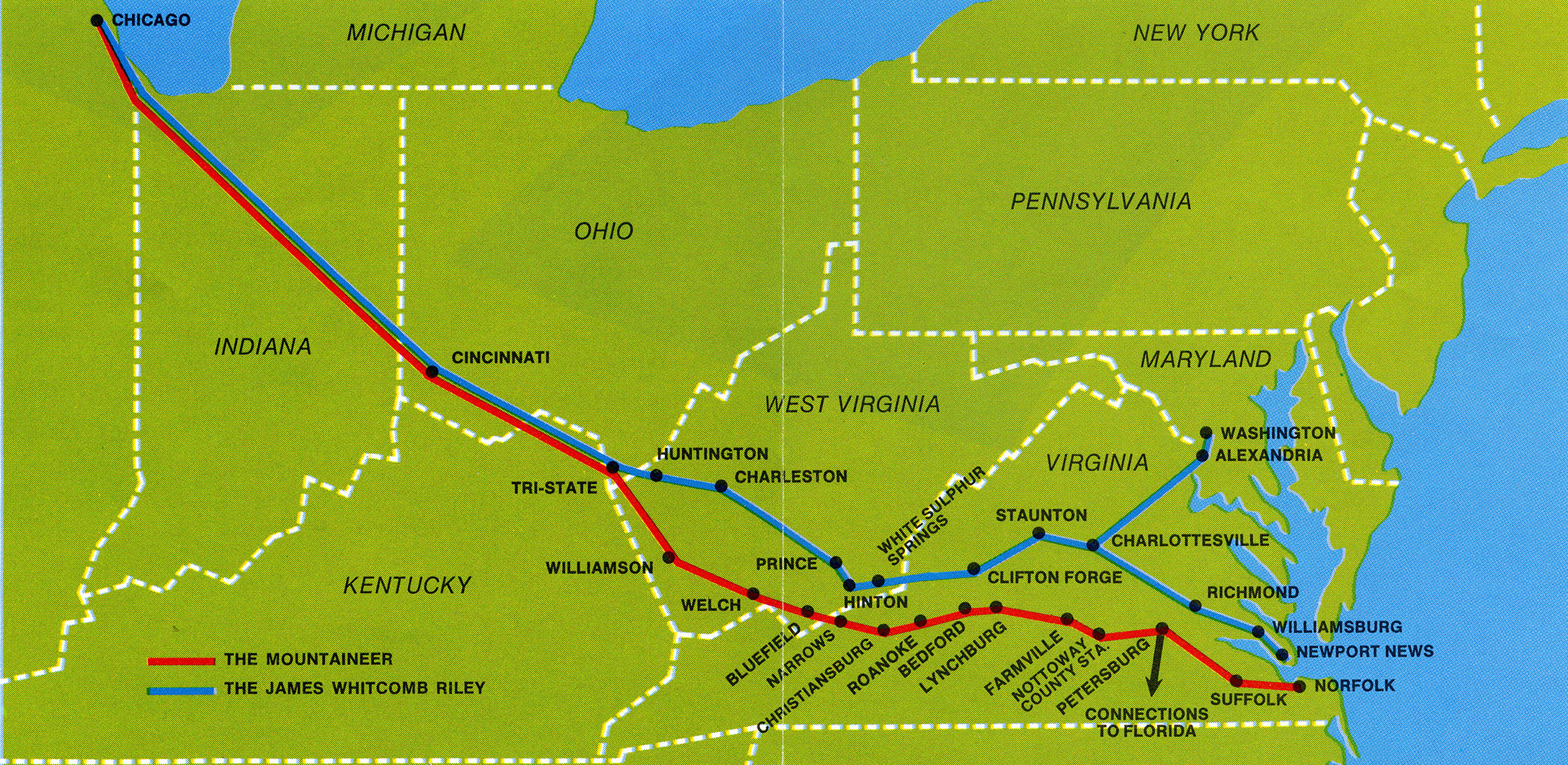 1975 map showing the routes of the James Whitcomb Riley and the Mountaineer